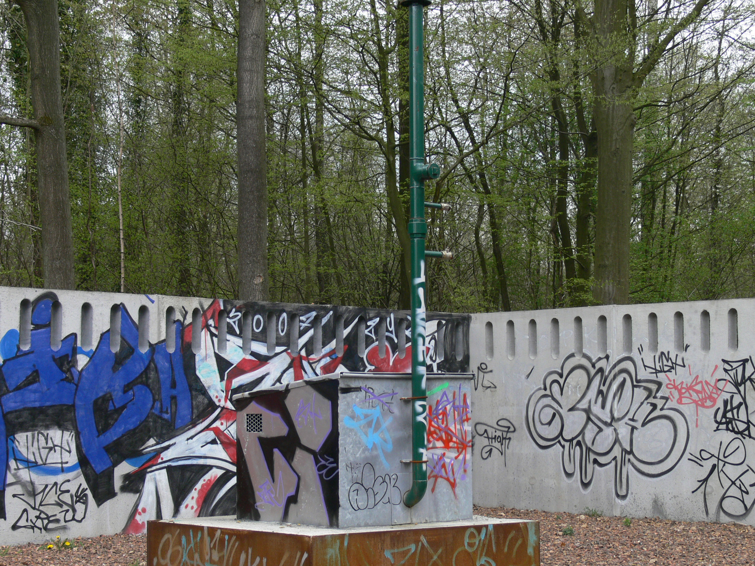 Residual methane gas monitoring station in Hauts-de-France region (former Nord Pas de Calais mining area, here in the Saint-Amand forest). The site is surrounded by walls, but visibly regularly visited. Due to the mining subsidence and the progressive rise of groundwater, this gas (greenhouse gas) requires monitoring